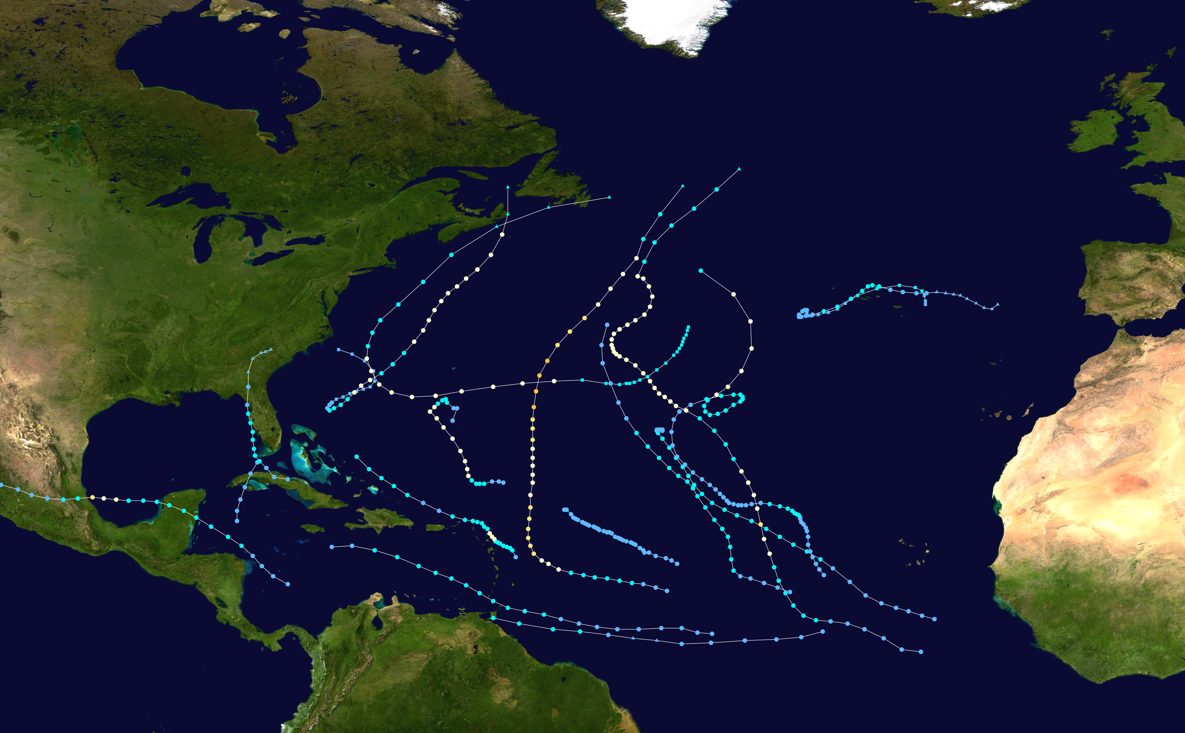 This map shows the tracks of all tropical cyclones in the 1990 Atlantic hurricane season. The points show the location of each storm at 6-hour intervals. The colour represents the storm's maximum sustained wind speeds as classified in the Saffir-Simpson Hurricane Scale (see below), and the shape of the data points represent the type of the storm. Saffir–Simpson scale Tropical depression≤38 mph≤62 km/h Category 3111–129 mph178–208 km/h Tropical storm39–73 mph63–118 km/h Category 4130–156 mph209–251 km/h Category 174–95 mph119–153 km/h Category 5≥157 mph≥252 km/h Category 296–110 mph154–177 km/h Unknown Storm type Tropical cyclone Subtropical cyclone Extratropical cyclone / Remnant low / Tropical disturbance / Monsoon depression